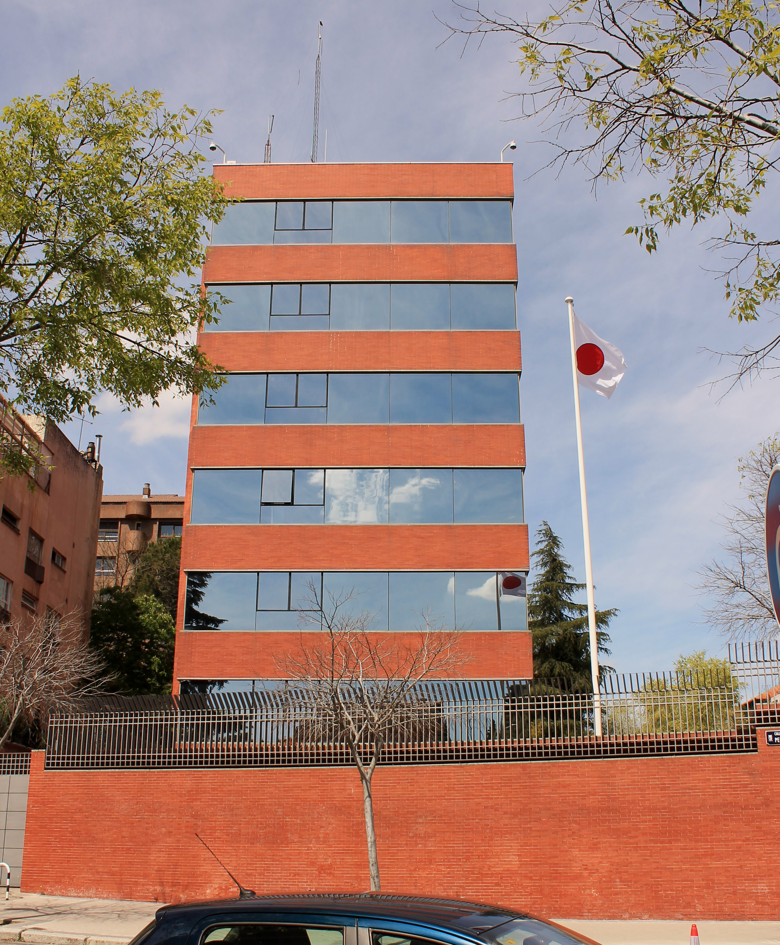 South façade of the Japanese Embassy in Madrid (Spain).